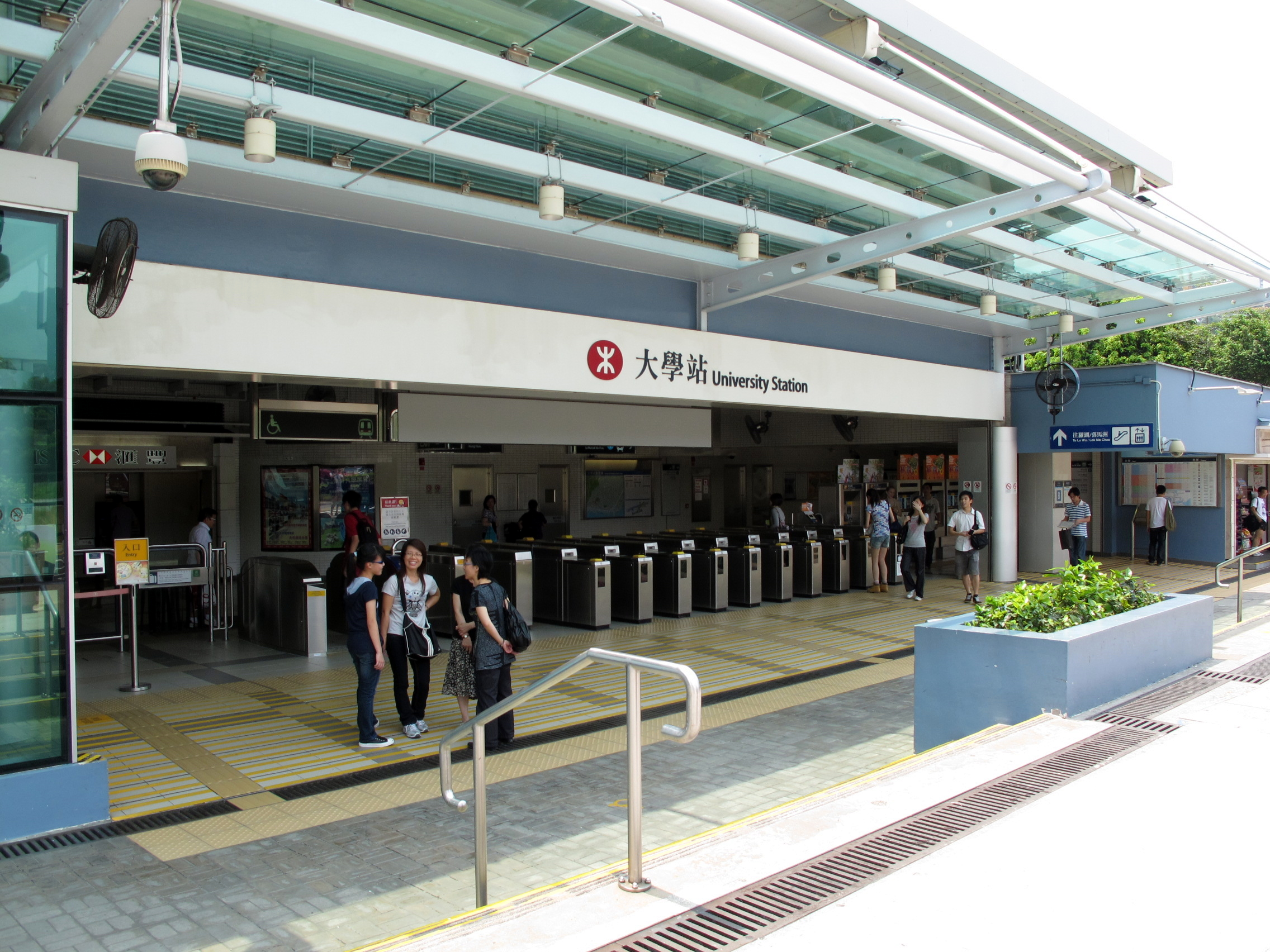 HK University Station Enterance 港鐵大學站入口